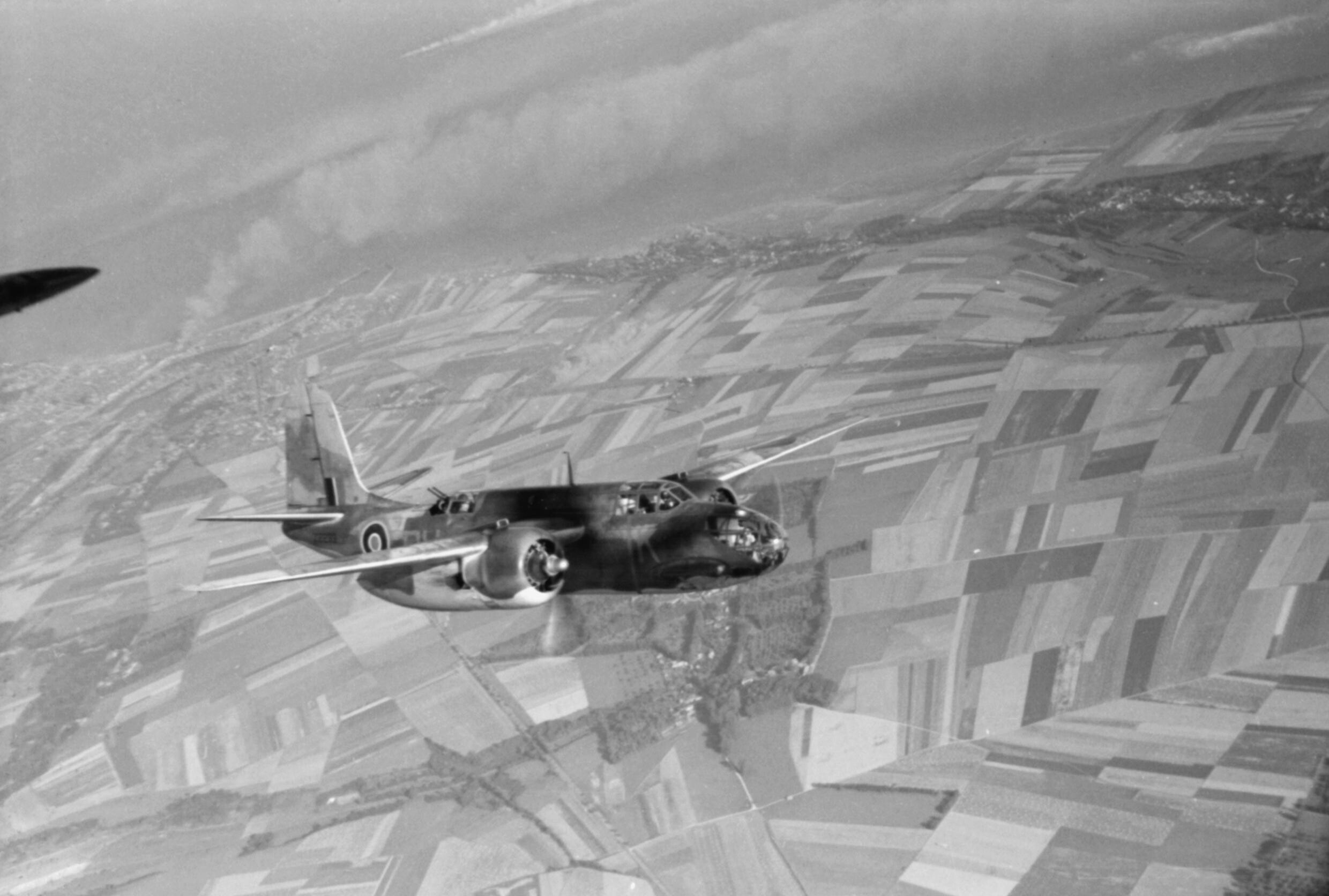 Royal Air Force Bomber Command, 1942-1945. Operation JUBILEE, the Combined Forces raid on Dieppe, France. A Douglas Boston Mark III of No. 88 Squadron RAF, flying from Ford, Sussex, heads inland over France after the bombing the German gun batteries defending Dieppe, (seen at upper left).